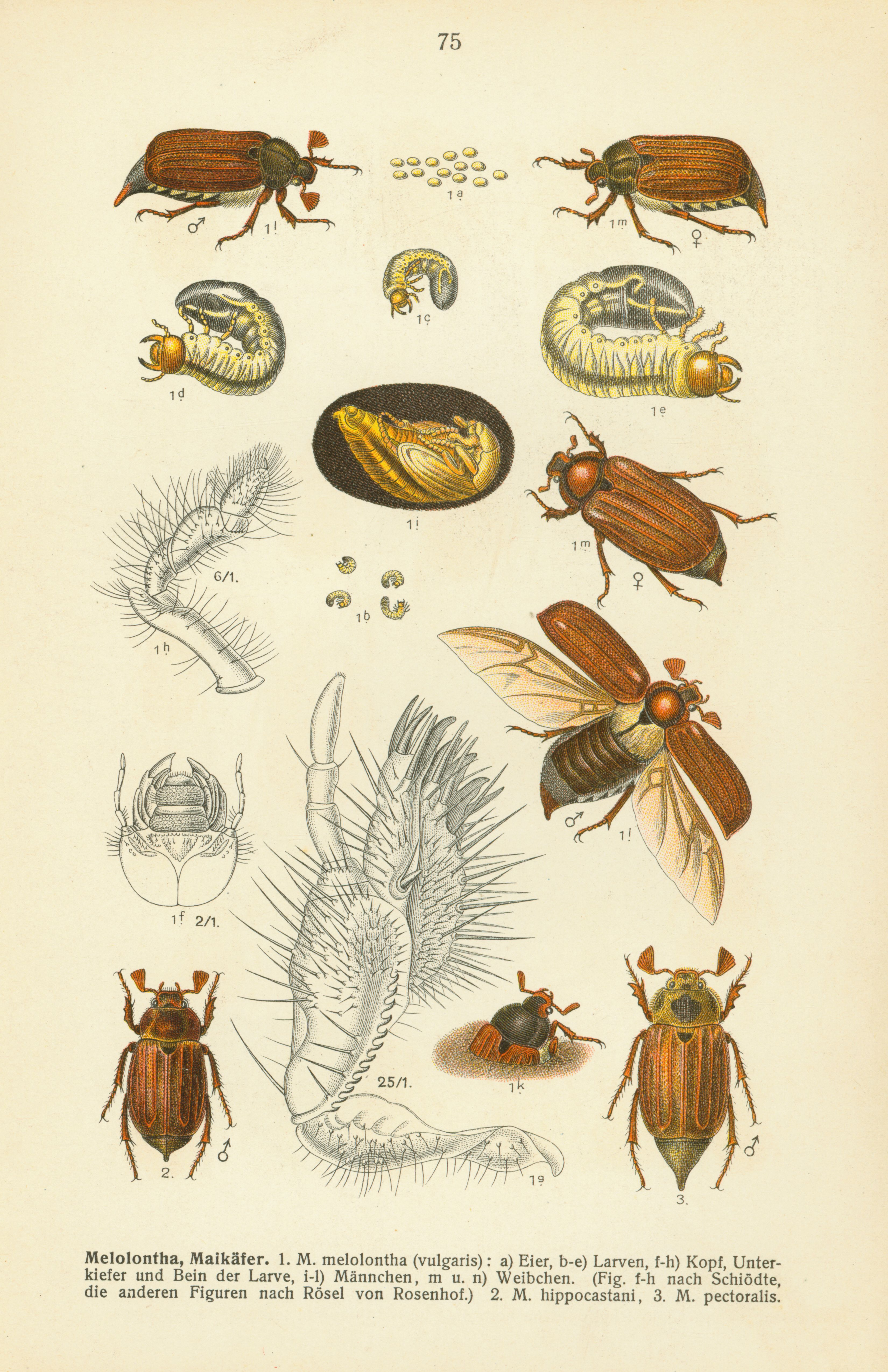 See image for index to numbers. Melolontha melolontha Lin. = Melolontha melolontha (Linnaeus, 1758) (2a: eggs, 2b: hatchling larva, 2c: young larvae, 2d: older larvae, 2e: larva before pupation, 2f: head of larva, 2g: maxilla of larva, 2h: leg of larva, 2i: male pupa, 2k: adult male emerging after hatching, 2l: adult male, 2m: adult female, dorsolateral view, 2[n]: adult female, dorsal view) Melolontha hippocastani Fabr. = Melolontha hippocastani Fabricius, 1801, adult, dorsal view Melolontha pectoralis Germ. = Melolontha pectoralis Megerle, 1812, adult, dorsal view